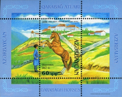 Stamp of Azerbaijan